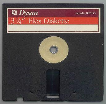 Picture taken by Chuck Guzis.